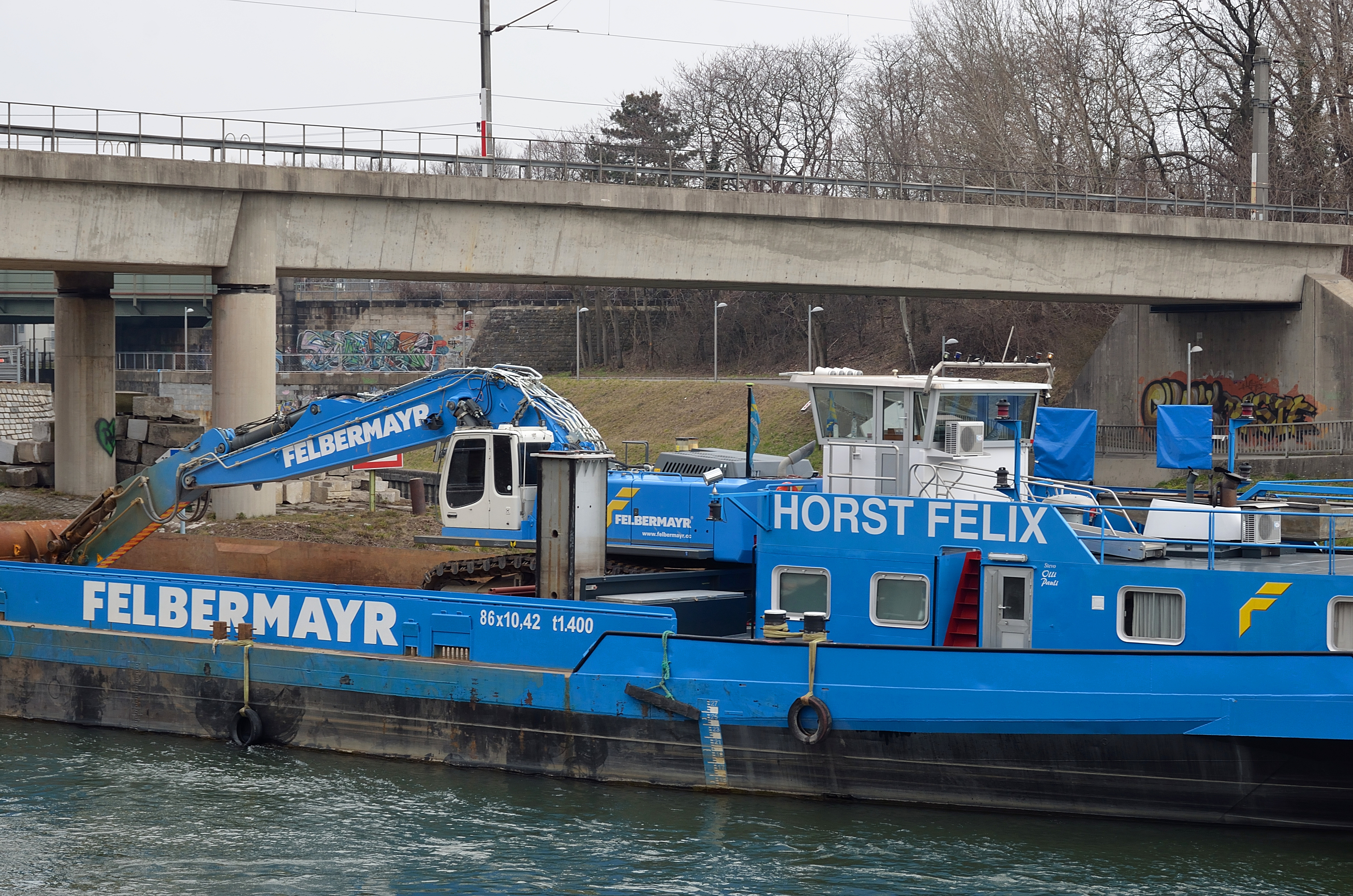 The ship Horst Felix - Felbermayr at the Donaukanal in Vienna. Rare male name of a ship.